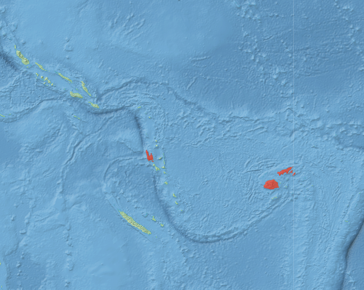 Geographic range of Chaerephon bregullae